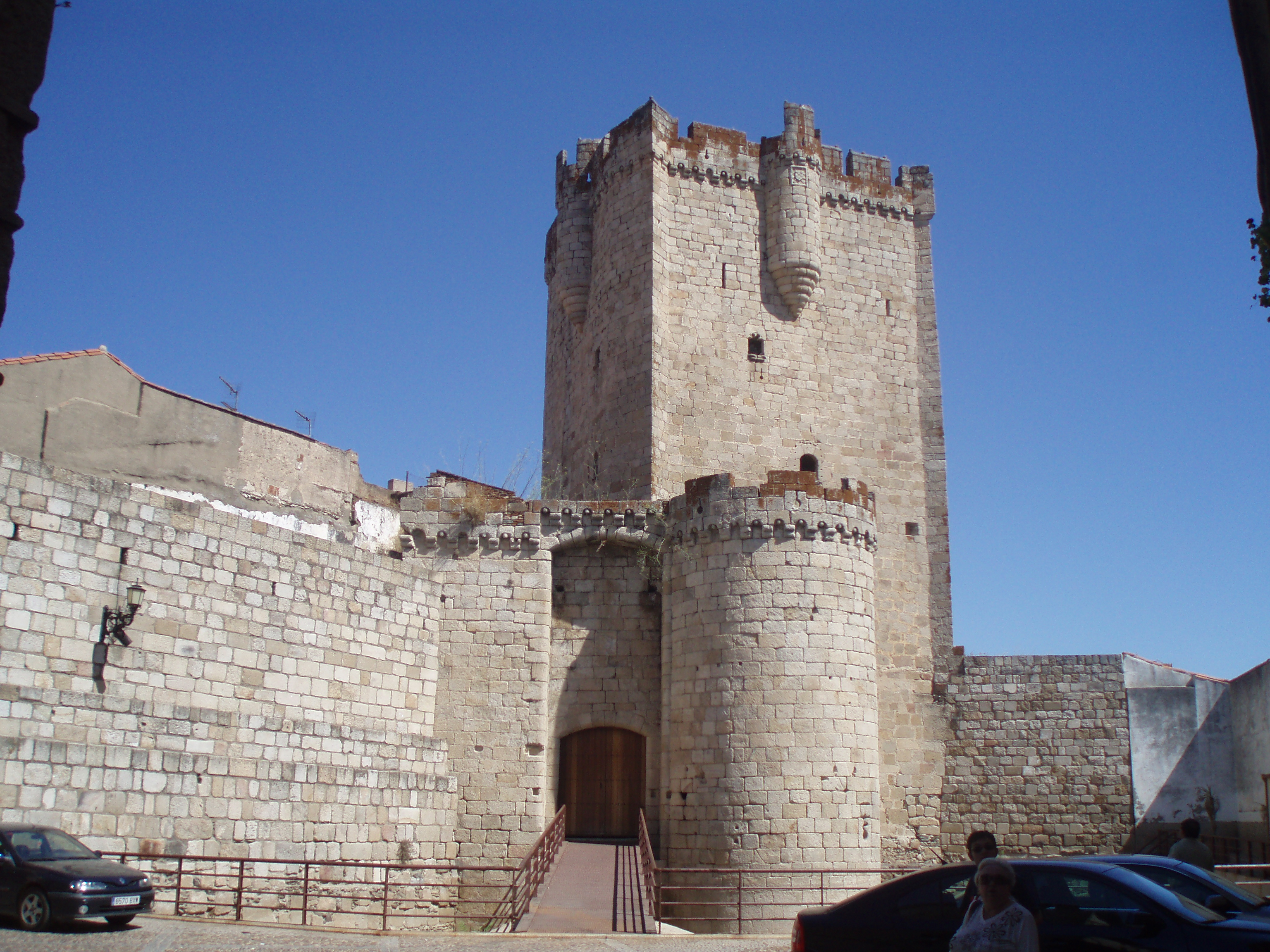 Castle of Coria, in the province of Caceres. (Spain).